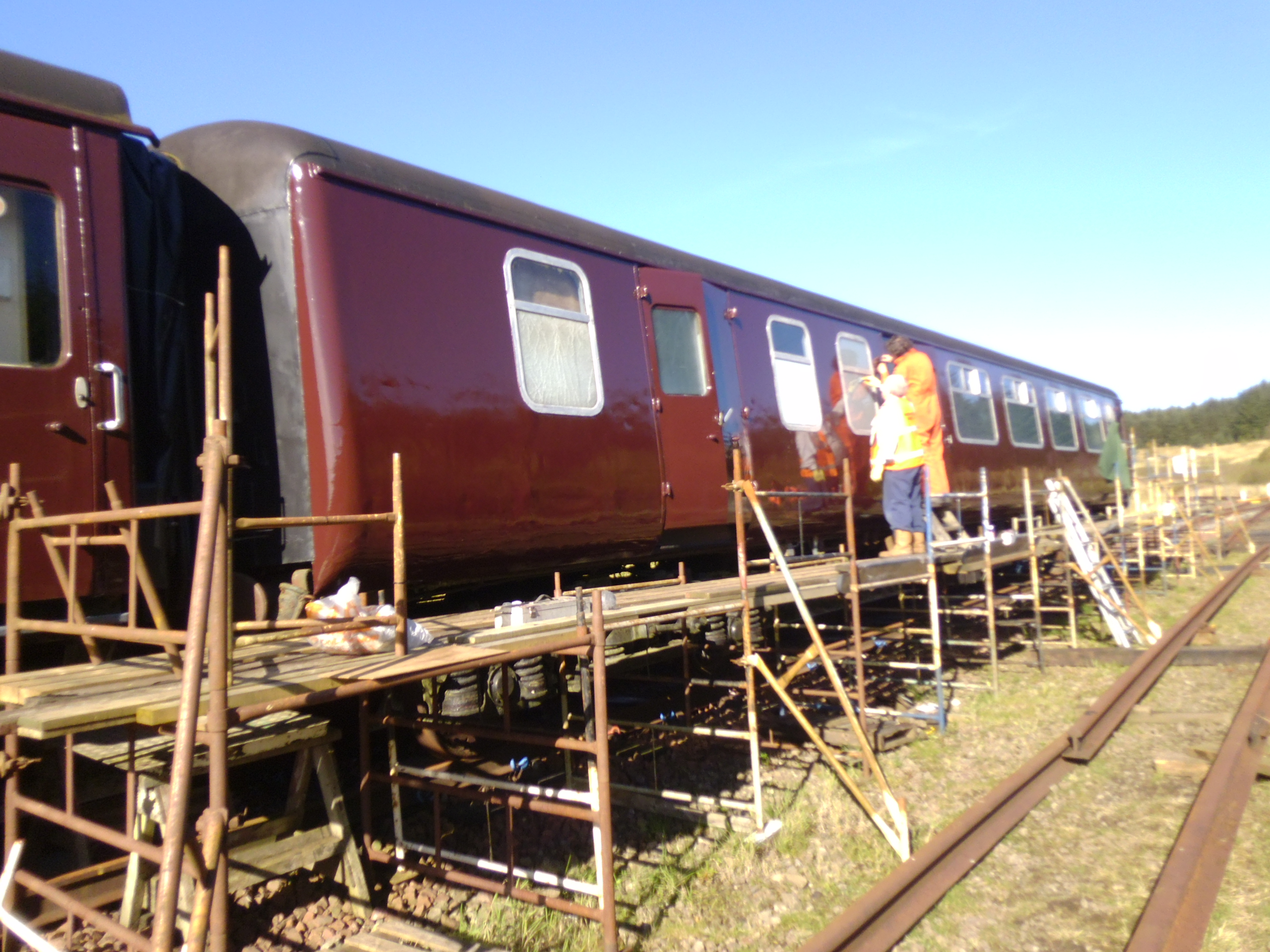 The east facing side of MkII Brake Second Open number 9400 receives a coat of maroon (crimson lake) paint, 7th October, 2012.